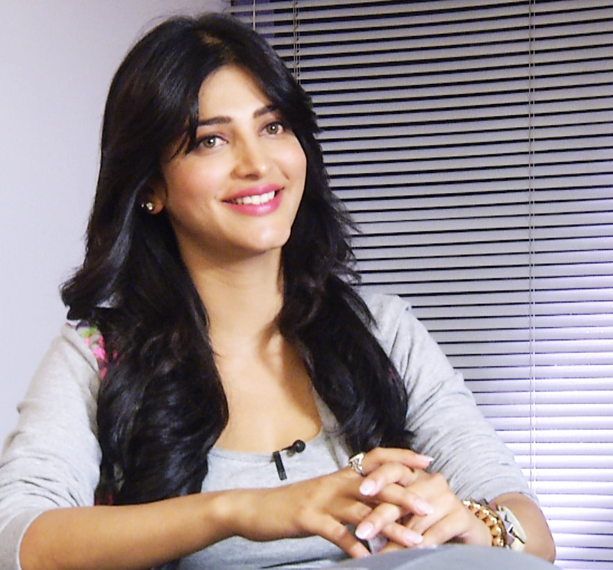 Actress Shruti Haasan gives a behind-the-scenes interview for the English, Hindi, and Tamil language version of the TeachAIDS animations at Annapurna Studios in Hyderabad, Andhra Pradesh. Photo credit: TeachAIDS